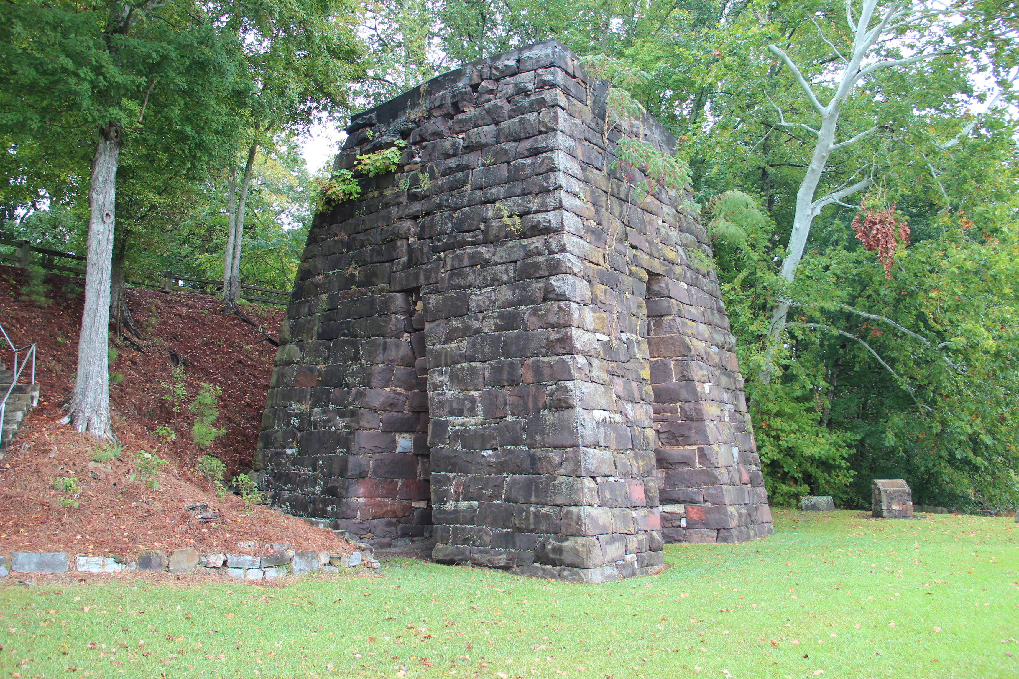 Cornwall Furnace